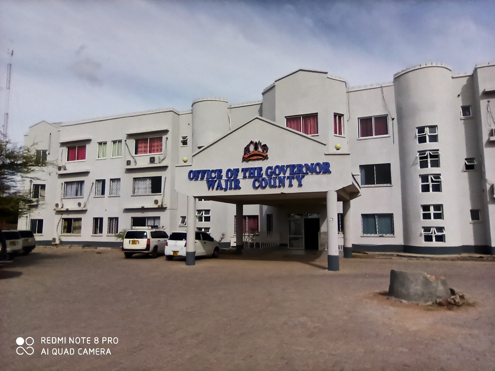 This is an image with the theme "Africa on the Move or Transport" from: Kenya